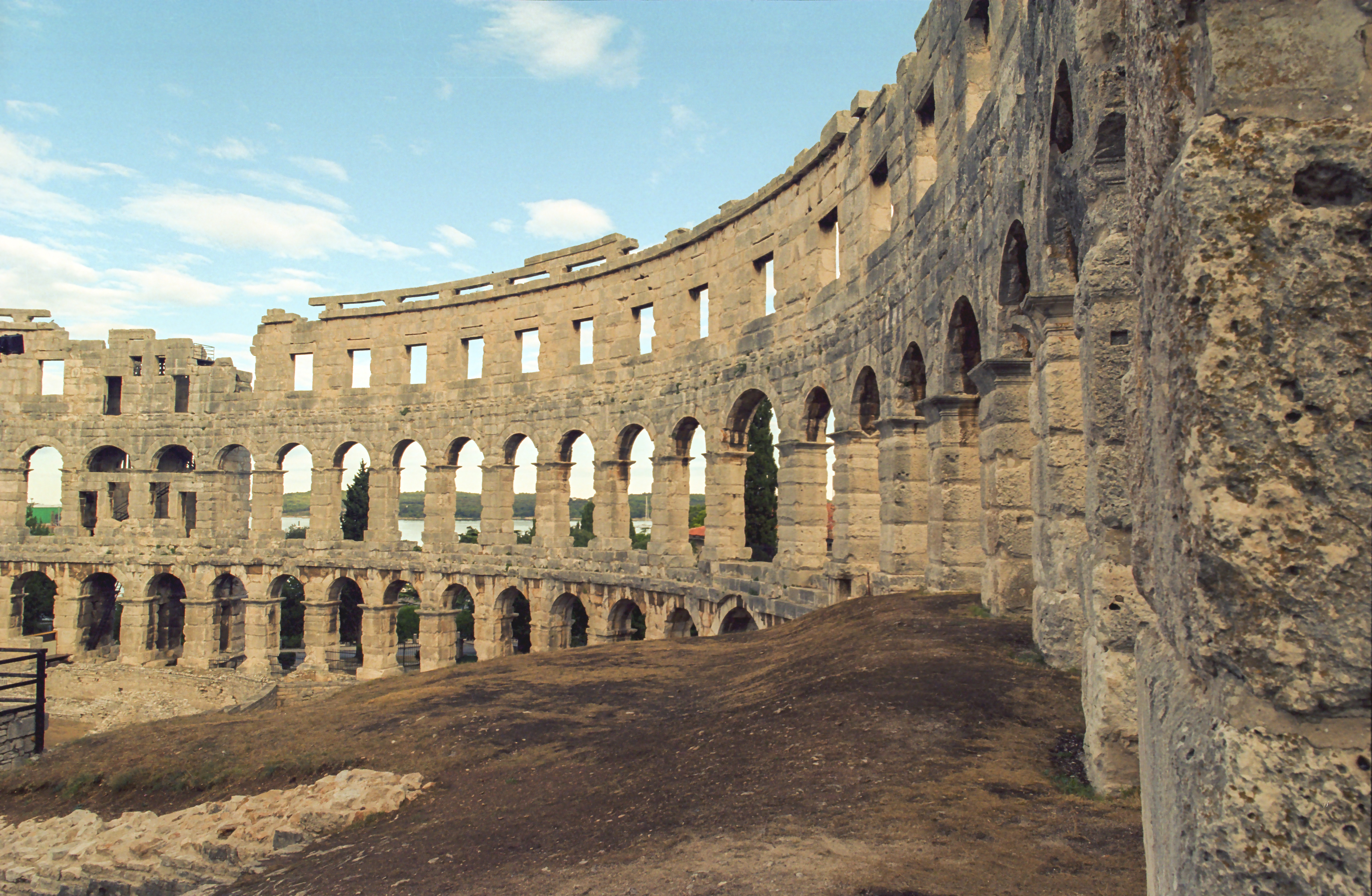 The Ancient Roman amphitheatre in Pula, Istria region, (Croatia)